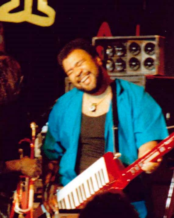 George Duke and Miles Davis in 1986 at Montreux Jazz Festival.